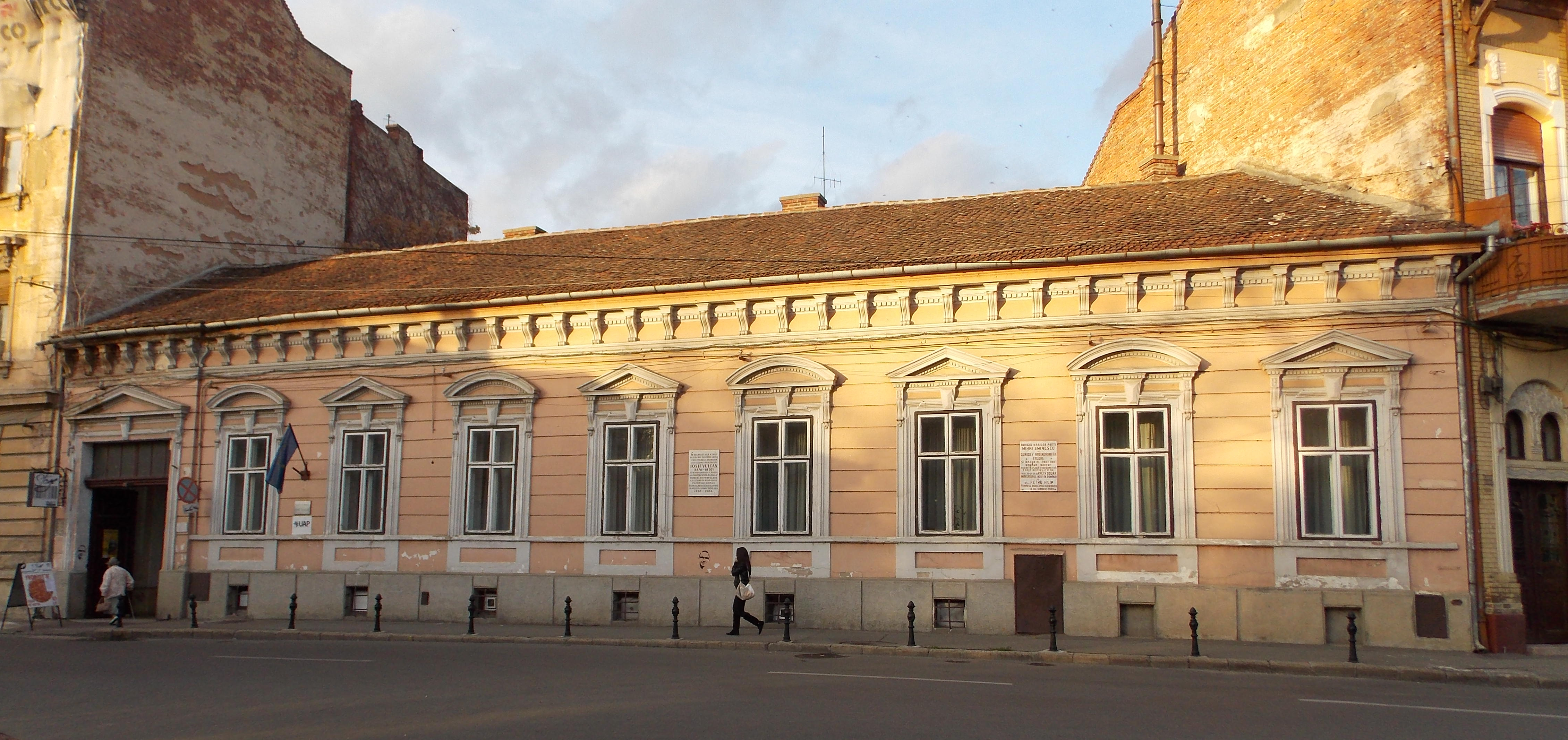 Iosif Vulcan Museum - OradeaRomână: Muzeul Memorial Iosif Vulcan - Oradea